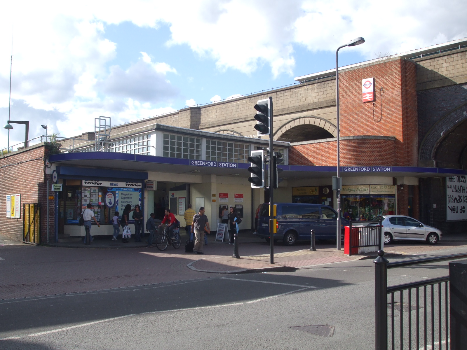 Greenford station, served by both London Underground and First Great Western